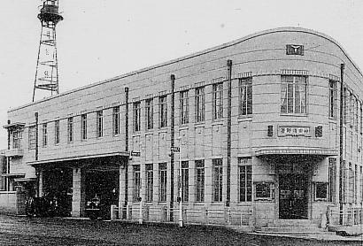 Kanda Fire Station circa 1930